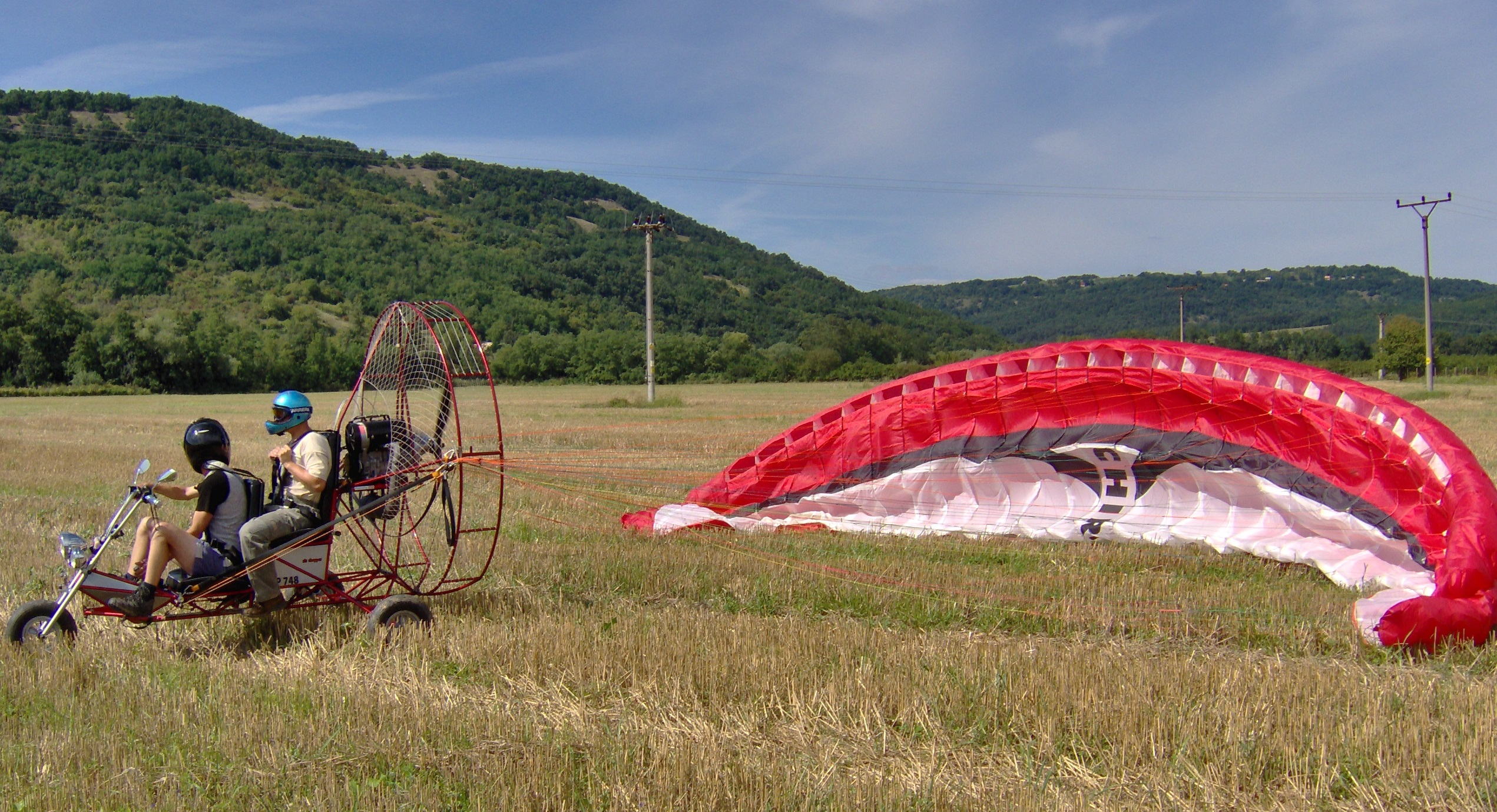 Powered parachute, Plášťovce, 2008